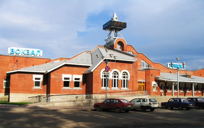 Tomsk-II rail station, Siberia, Russia